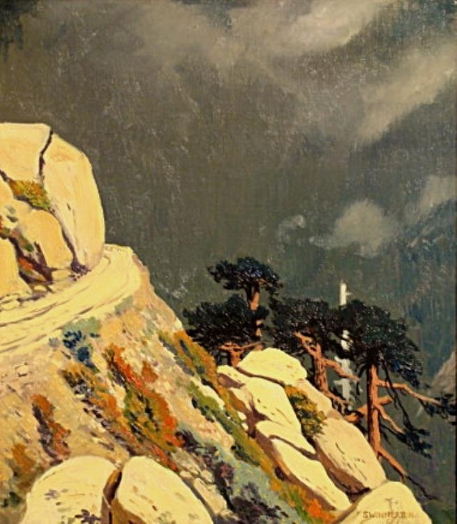 Artist Name: James Guilford (Jimmy) Swinnerton Category: Painting Title: Mountain Road Signed: Inscribed Size: 16"H x 14"W Medium: Oil Material/Ground: Board Style: American Impressionist Subject: Landscape Created: circa 1915